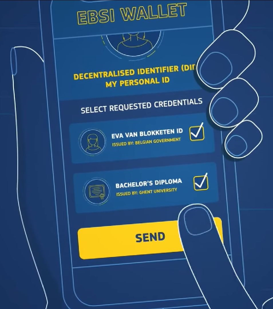 An impression of the European Blockchain Services Infrastructure (EBSI) wallet. Providing an eID and a diploma and digitally signing the 'application form'. Screenshot taken at 20 seconds from the video source.